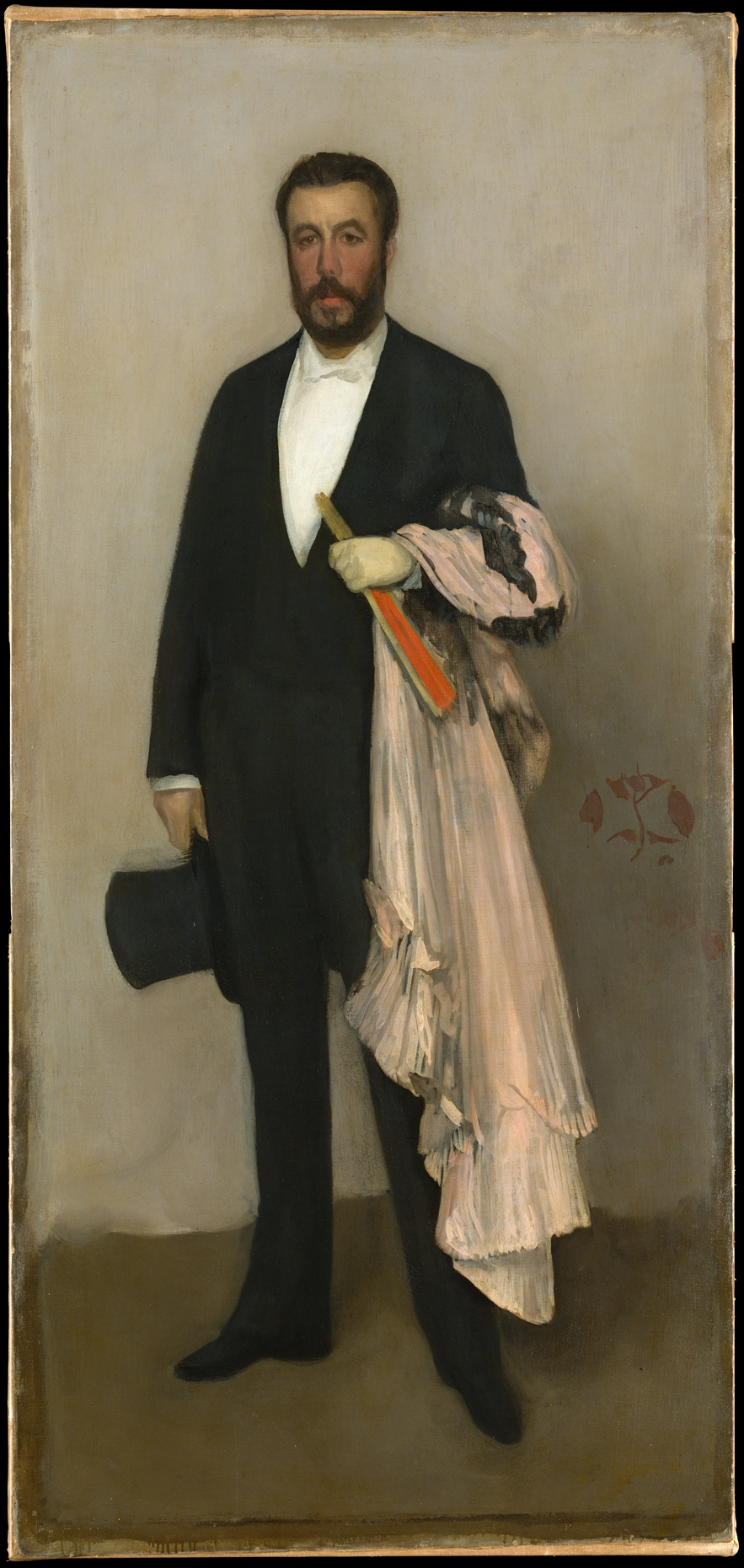 Arrangement in Flesh Colour and Black: Portrait of Theodore Duret Artist: James McNeill Whistler (American, Lowell, Massachusetts 1834–1903 London) Date: 1883 Medium: Oil on canvas Dimensions: 76 1/8 x 35 3/4 in. (193.4 x 90.8 cm) Classification: Paintings Credit Line: Catharine Lorillard Wolfe Collection, Wolfe Fund, 1913 Theodore Duret (1838–1927), heir to a firm of Cognac dealers, was a collector, orientalist, and art critic. An early champion of Courbet, Manet, and the Impressionists, he was introduced to Whistler by Manet. He posed for this portrait in 1883 at Whistler's London studio at 13 Tite Street. At Duret's request, Whistler painted him in full evening dress, but Whistler suggested that he hold a pink domino, an addition necessary to the decorative arrangement of the composition. Whistler worked on the portrait over a long period of time, even though the finished work ultimately looks like a rapid sketch. Acclaimed when exhibited at the Paris Salon of 1885, it was ranked by many as the best portrait of Duret painted by any of the great Realist artists of the period.